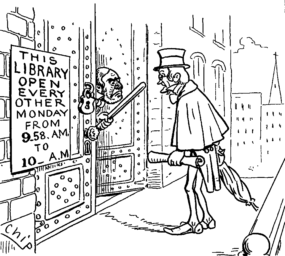 Cartoon satirizing the short hours and difficult staff of the Astor Library